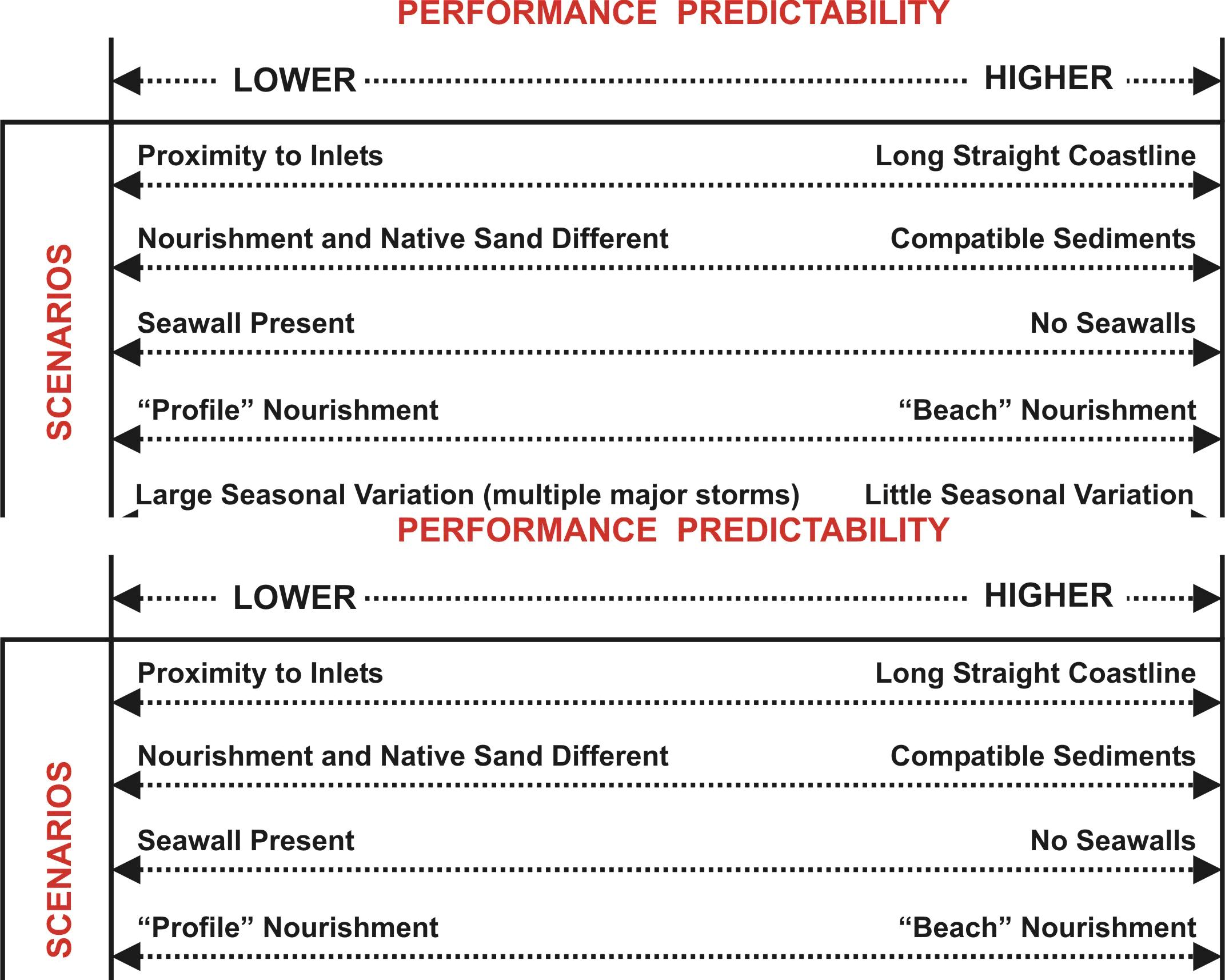 The performance predictability of a beach nourishment project